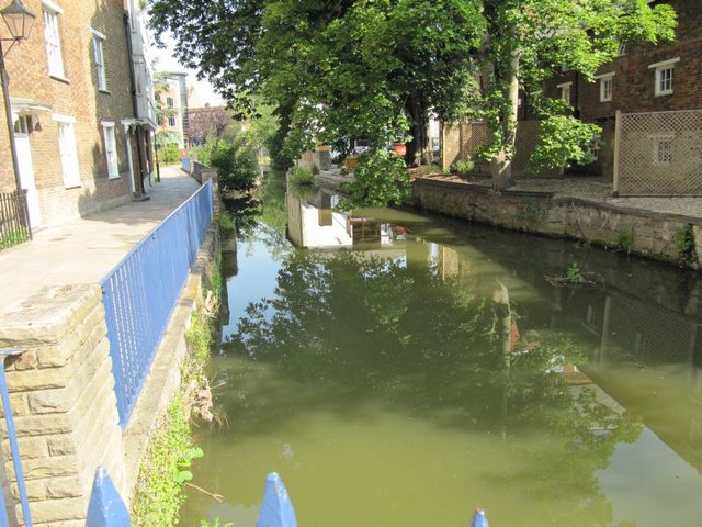 Castle Mill Stream, Oxford, England. This is a mill stream that runs past the old Oxford Castle.